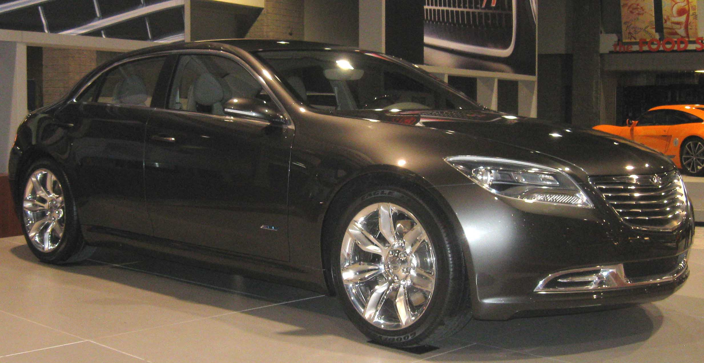 Chrysler 200C photographed at the 2009 Washington DC Auto Show.